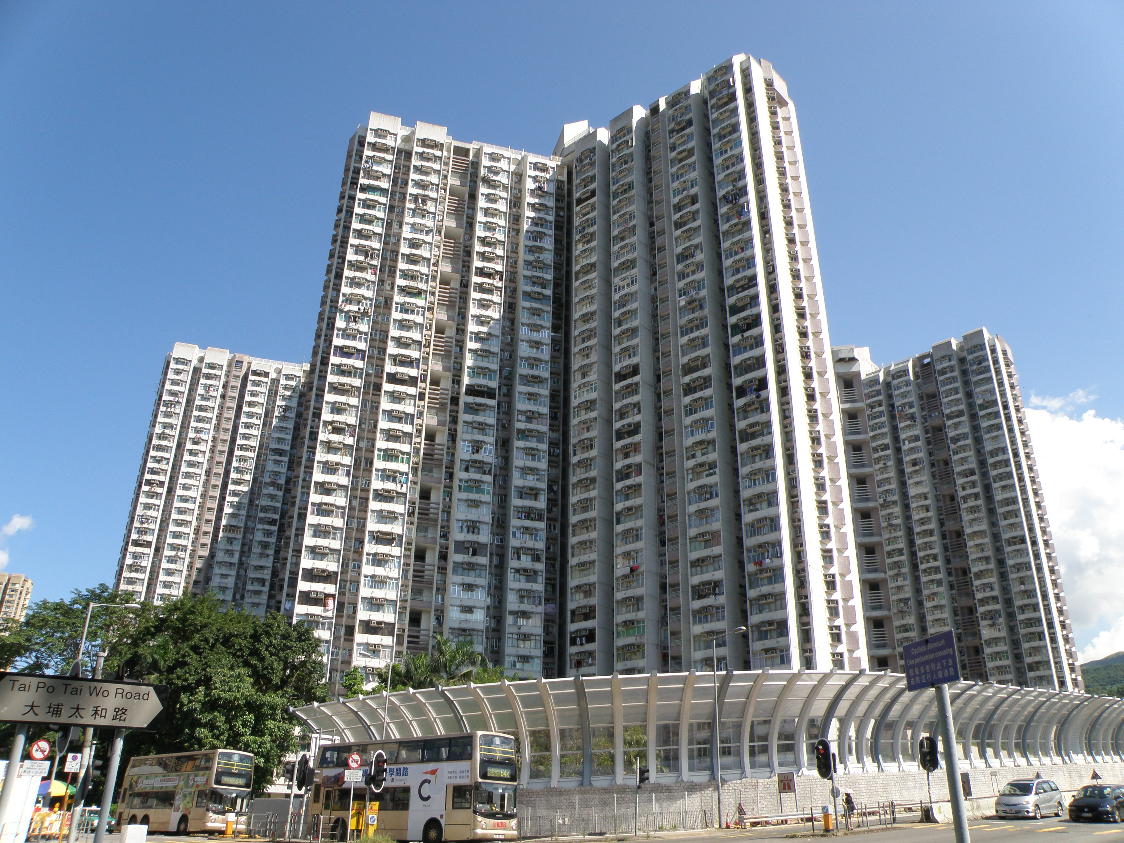 Po Nga Court, a Home Ownership Scheme residence in Tai Po, Hong Kong.